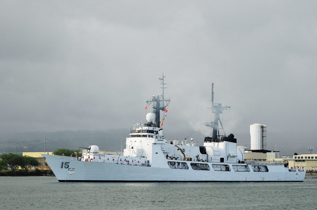 110729-N-WP746-294 Joint Base Pearl Harbor-Hickam (July 29, 2011) – The Philippine Navy's newest ship, BRP Gregorio del Pilar (PF-15), sails along the Pearl Harbor channel after a scheduled port visit at Joint Base Pearl Harbor-Hickam. The ship, a former U.S. Coast Guard cutter, is on its maiden voyage to the Republic of the Philippines to join the Philippine Navy Fleet. As a multi-mission surface combatant ship, Gregorio del Pilar becomes the first gas-turbine jet engine-powered vessel in the Philippine Navy fleet. (U.S. Navy photo by Mass Communication Specialist 2nd Class (SW) Mark Logico/Released)